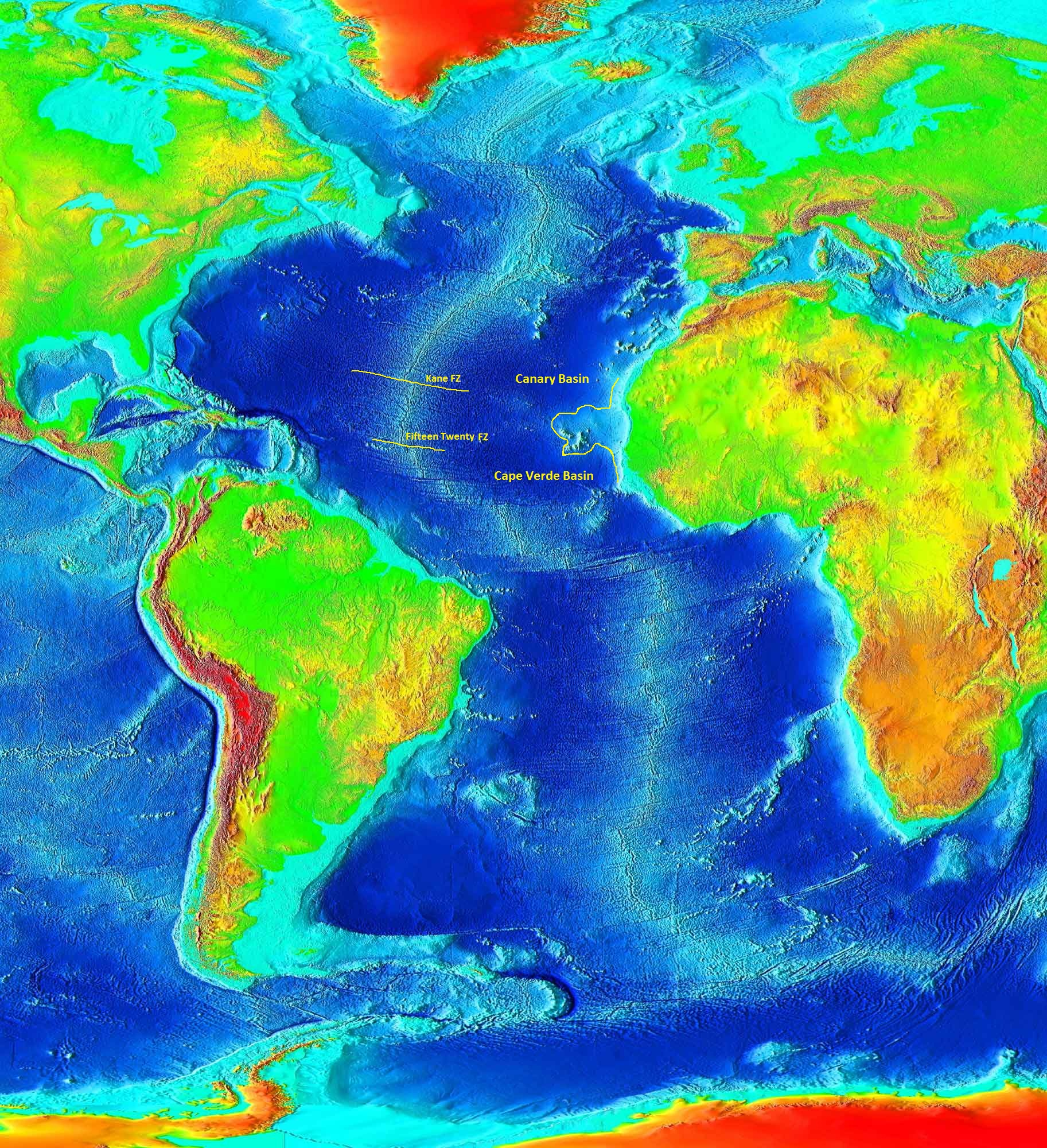 The Atlantic Ocean. The Cape Verde Rise is outlined in yellow. Position of Kane Fracture Zone and Fifteen Twenty Fracture Zone also marked in yellow.